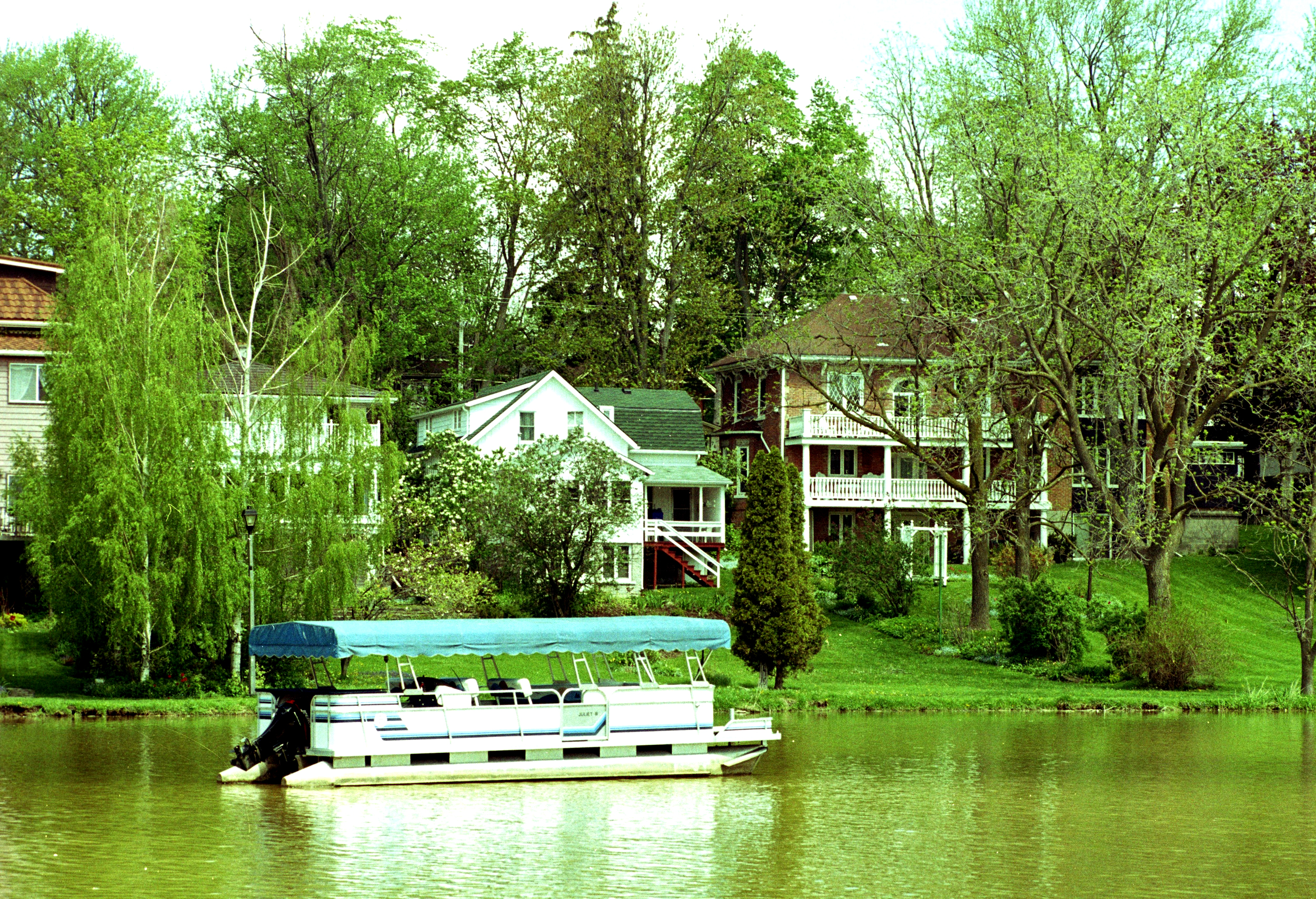 Avon River in Stratford， Ontario Photography， Gisling